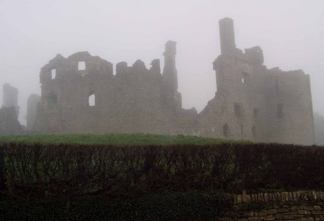 Misty morning, Coity Castle, Bridgend., near to Coity, Bridgend/Pen-y-Bont ar Ogwr, Wales.